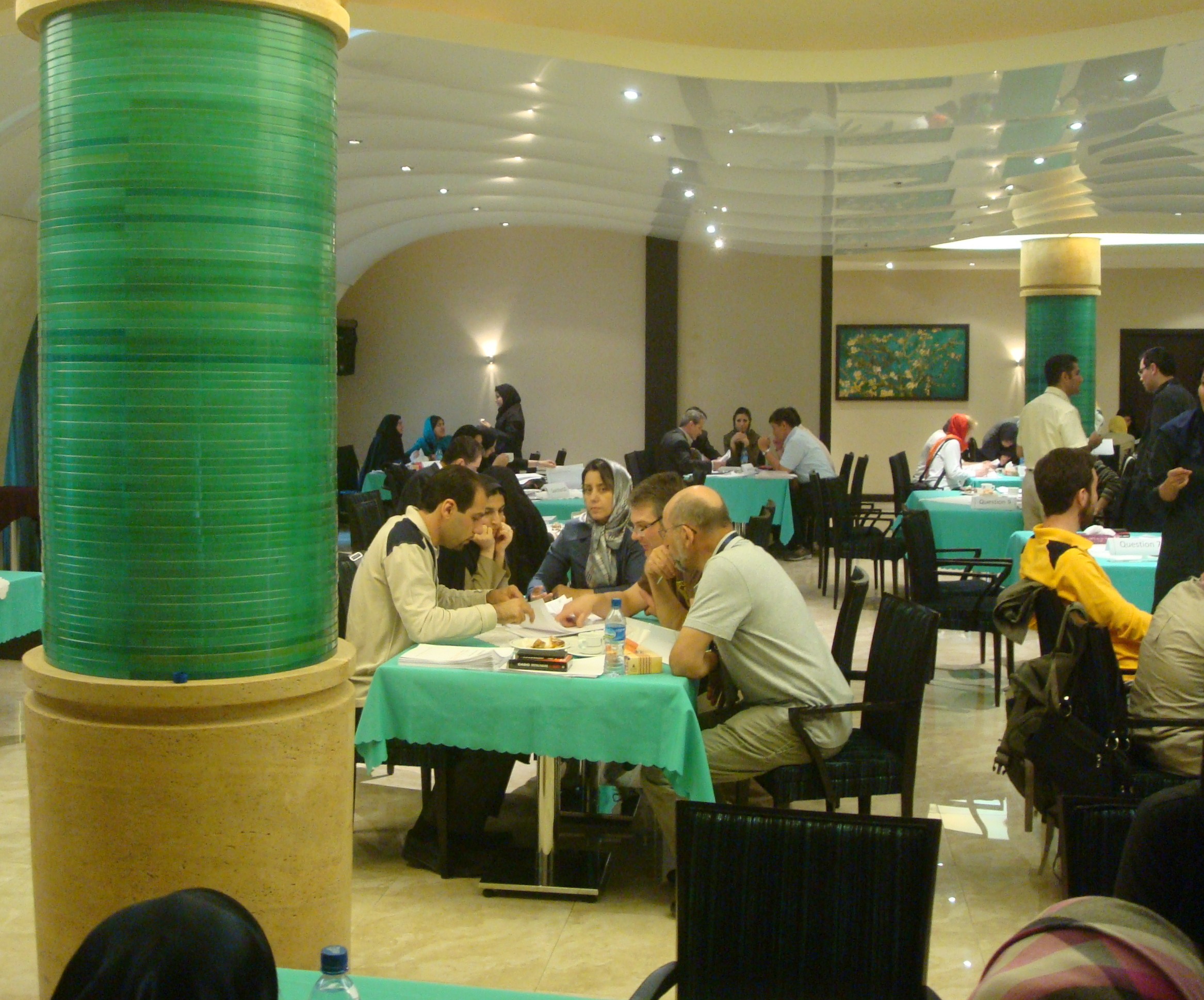 Moderation Session at IOAA 2009, at the Parsian Azadi Hotel, Theran, Iran.